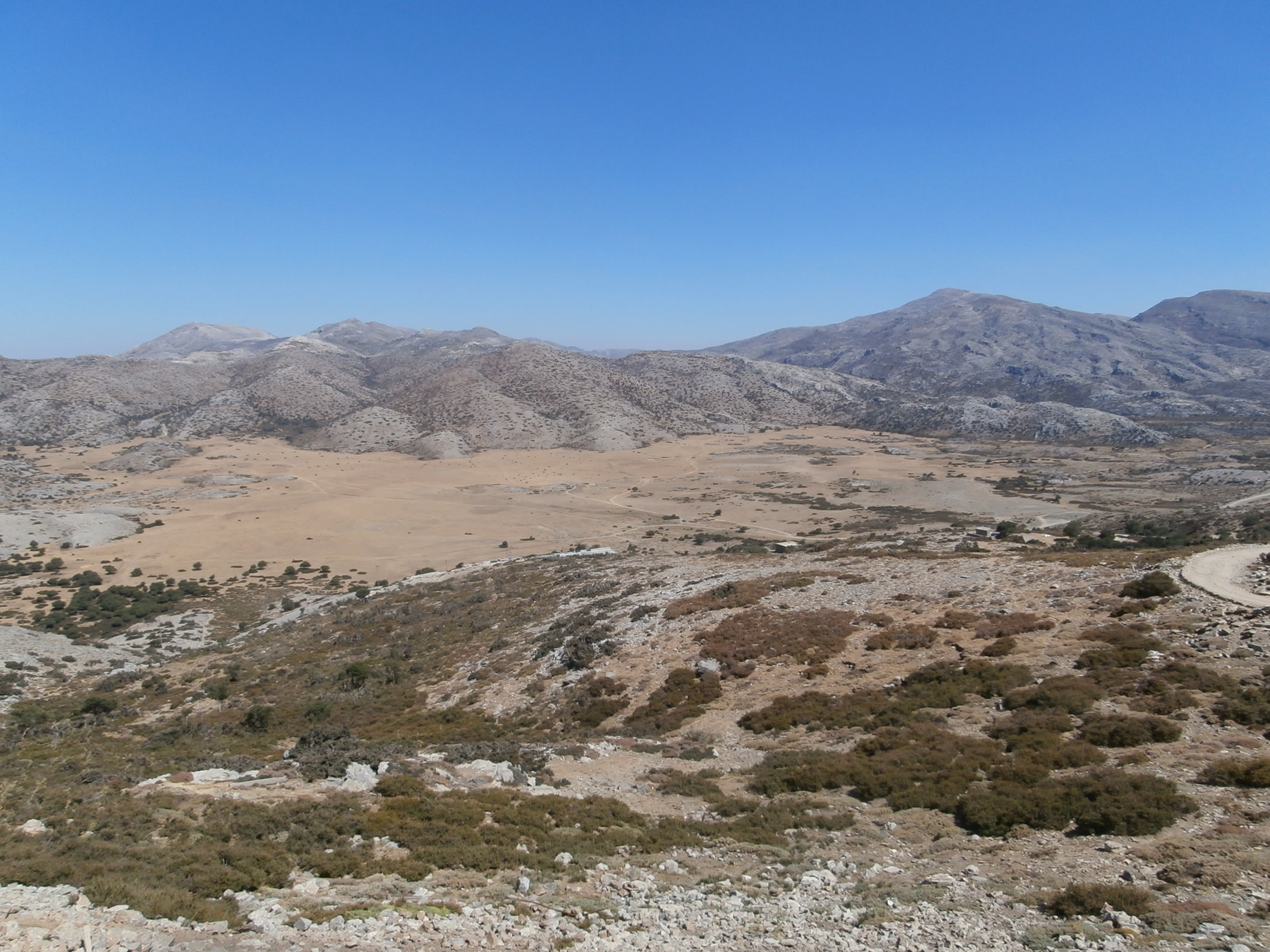 Nida plateau as seen from Idaio Andro This is a photography of Natura 2000 protected area with ID GR4330005